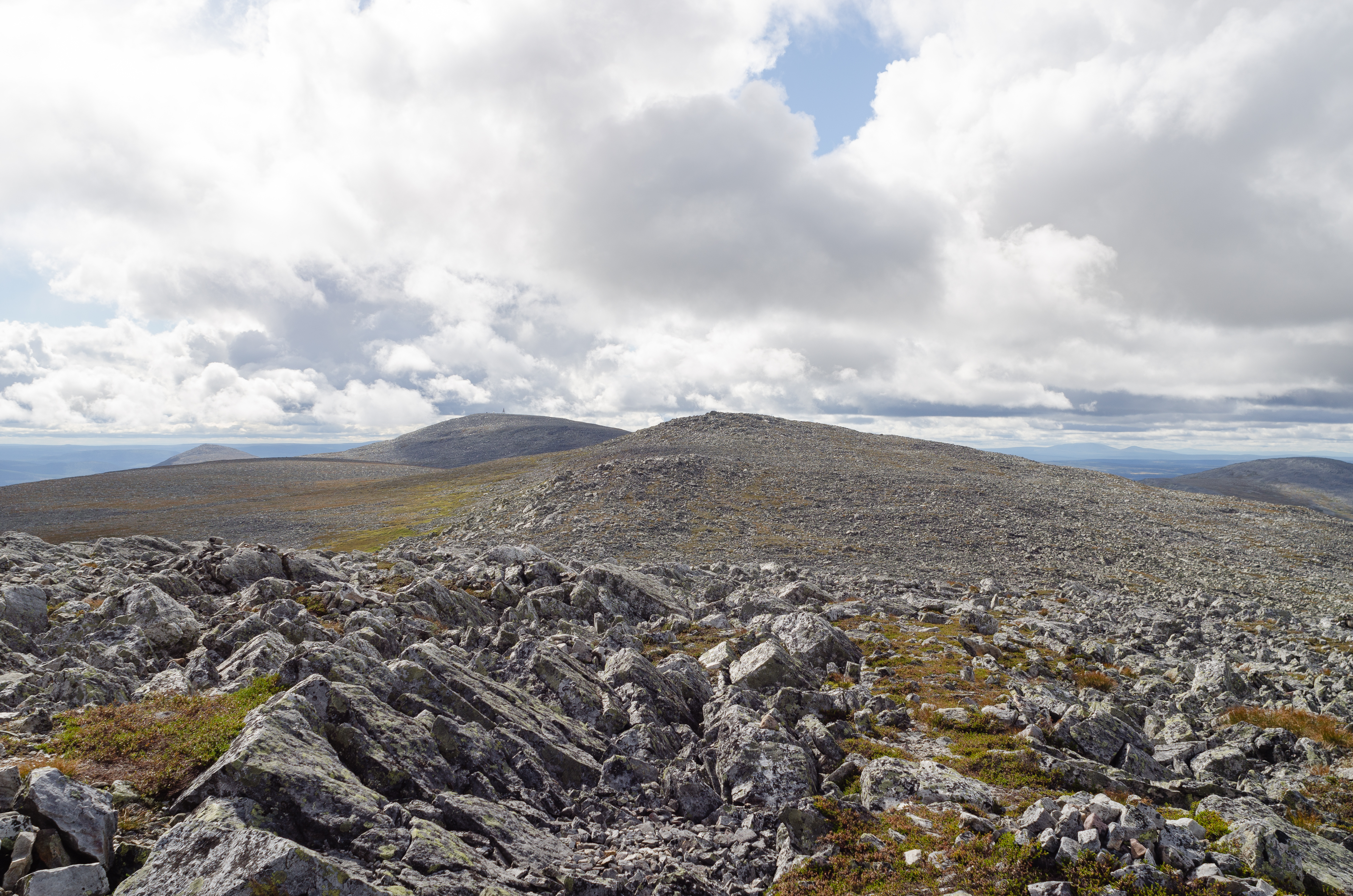 The summit of mount Sonfjället 1,278 m (4,193 ft) above sea level. Sonfjället is a national park situated in Härjedalen, in central Sweden. It was established in 1909, making it one of Europe's oldest national parks.